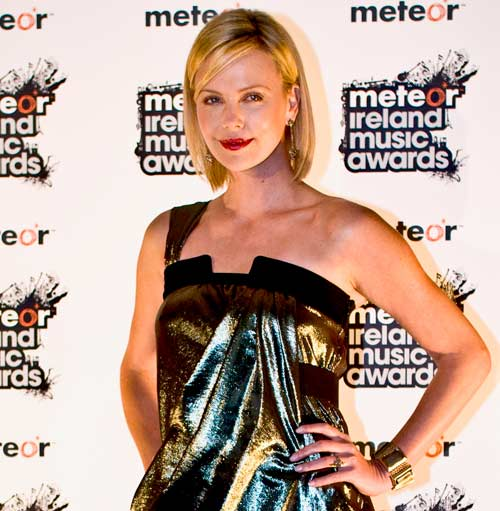 Charlize Theron at the Meteor Ireland Music Awards, 2008